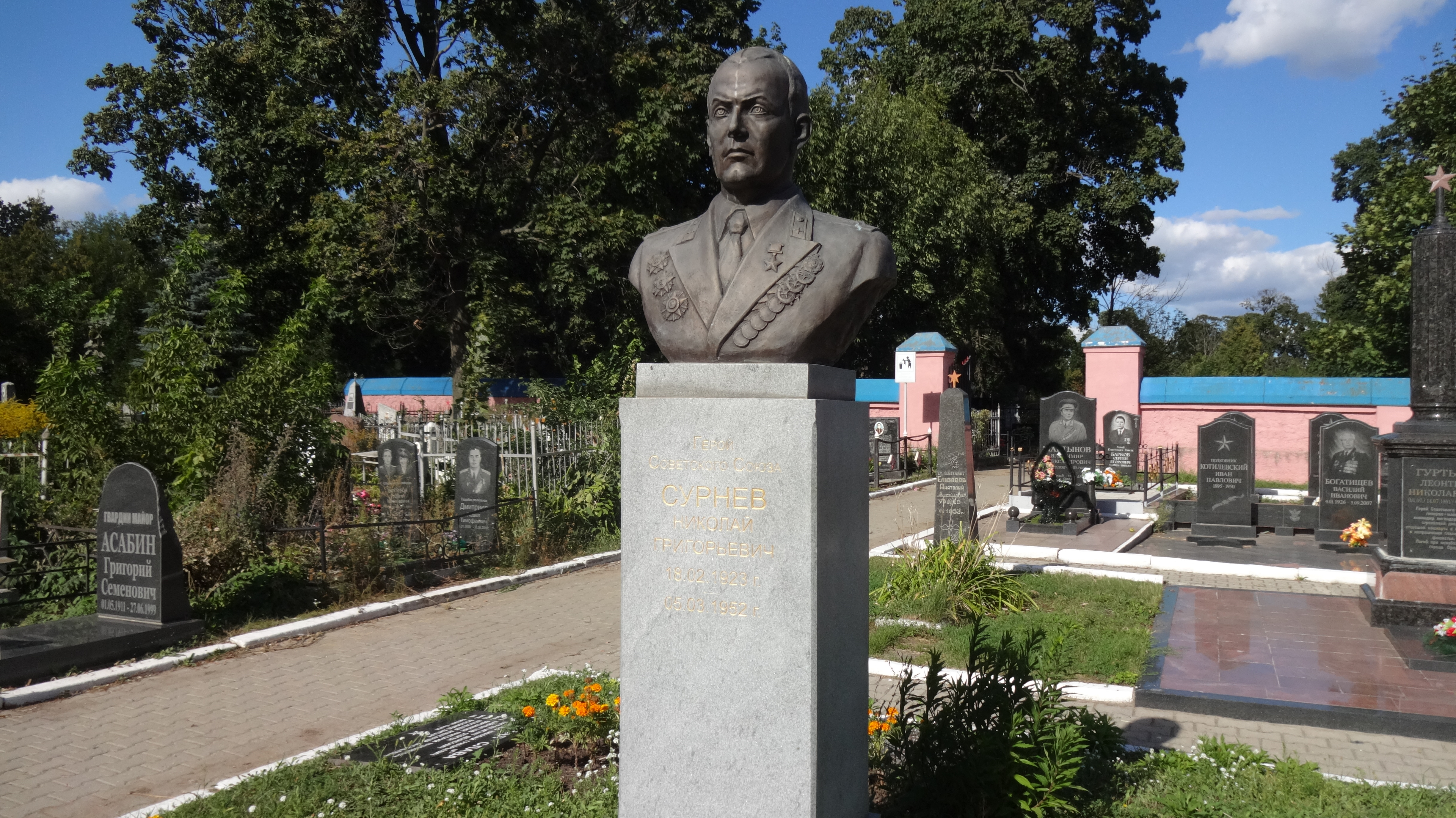 Gravestone of Nikolay Grigorievich Surnev, Hero of the Soviet Union, in Oryol.